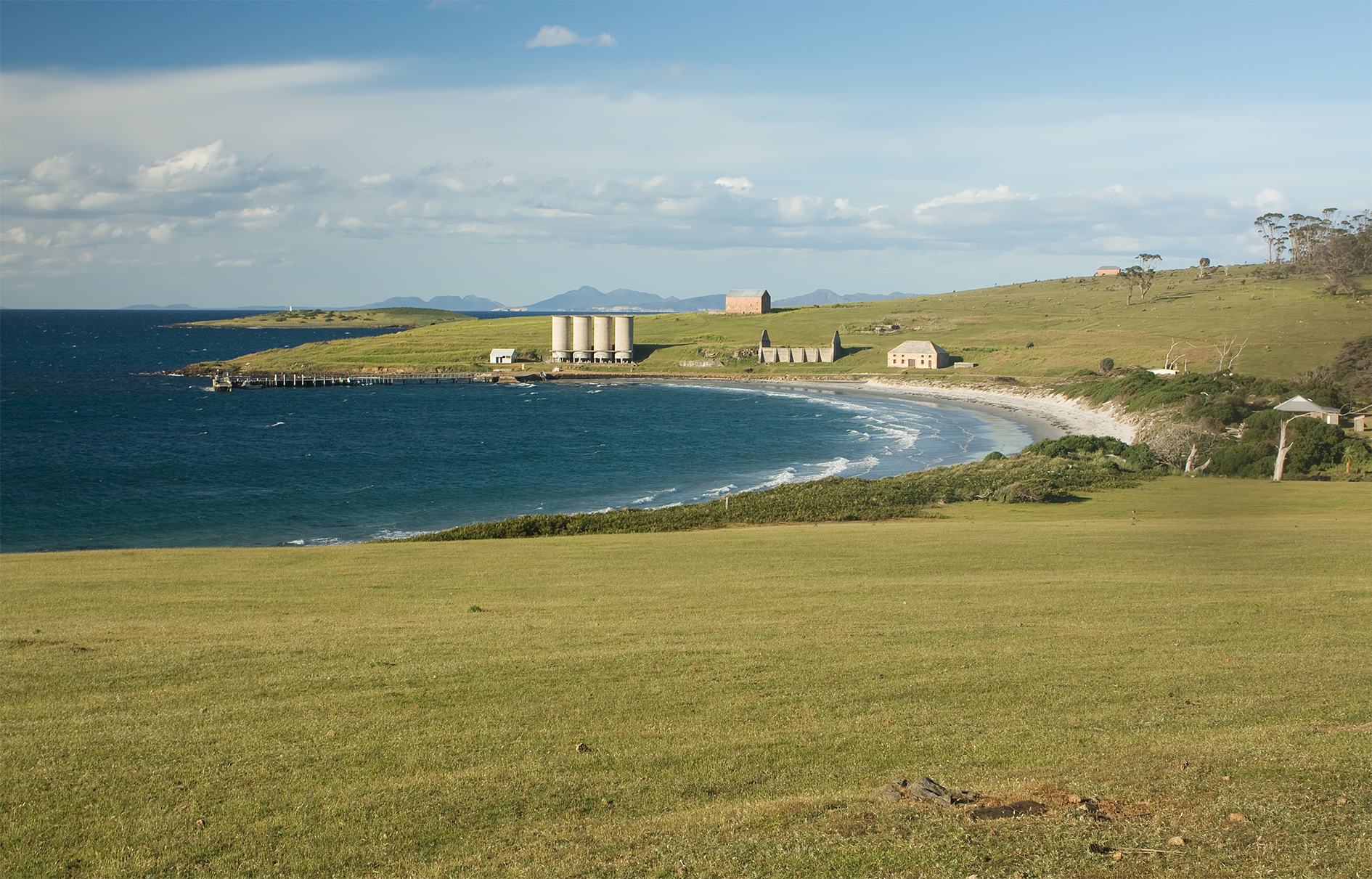 Maria Island Jetty, Cement Silos, Store and Clinker Storage near Darlngton, Maria Island, Tasmania, Australia